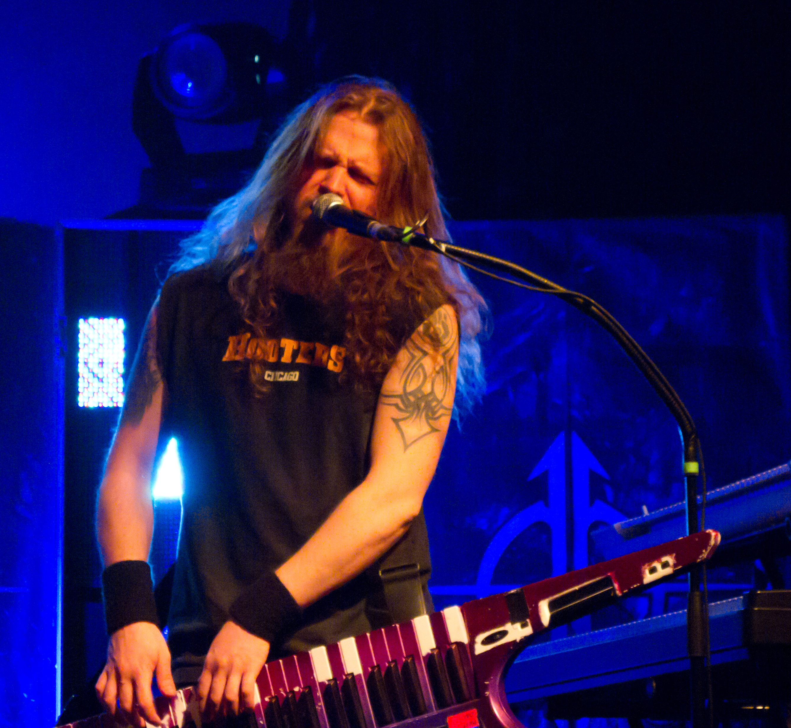 Henrik Klingenberg (Sonata Arctica) in concert.